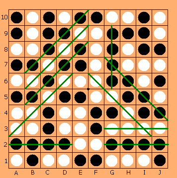 The board game called Freedom. End of a game.